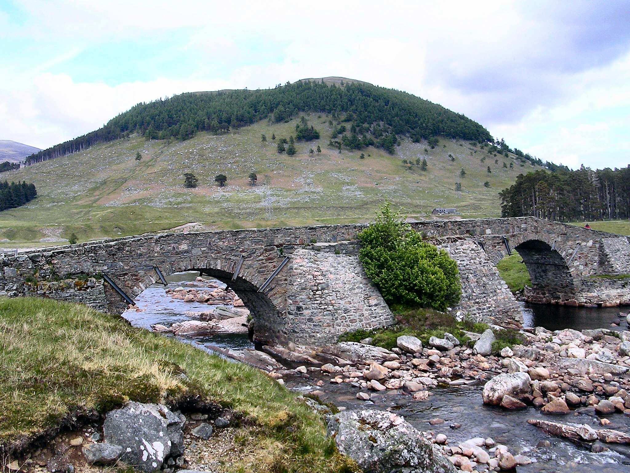 Photograph of the stone-built Garva Bridge over River Spey on General Wade's Military Road (Scheduled Ancient Monument) that leads over the Corrieyairack Pass to Fort Augustus. Looking northeast with Garvabeg (house) to Meall an Domhnaich (wooded hill, 608 metres), Geal Charn in distance.